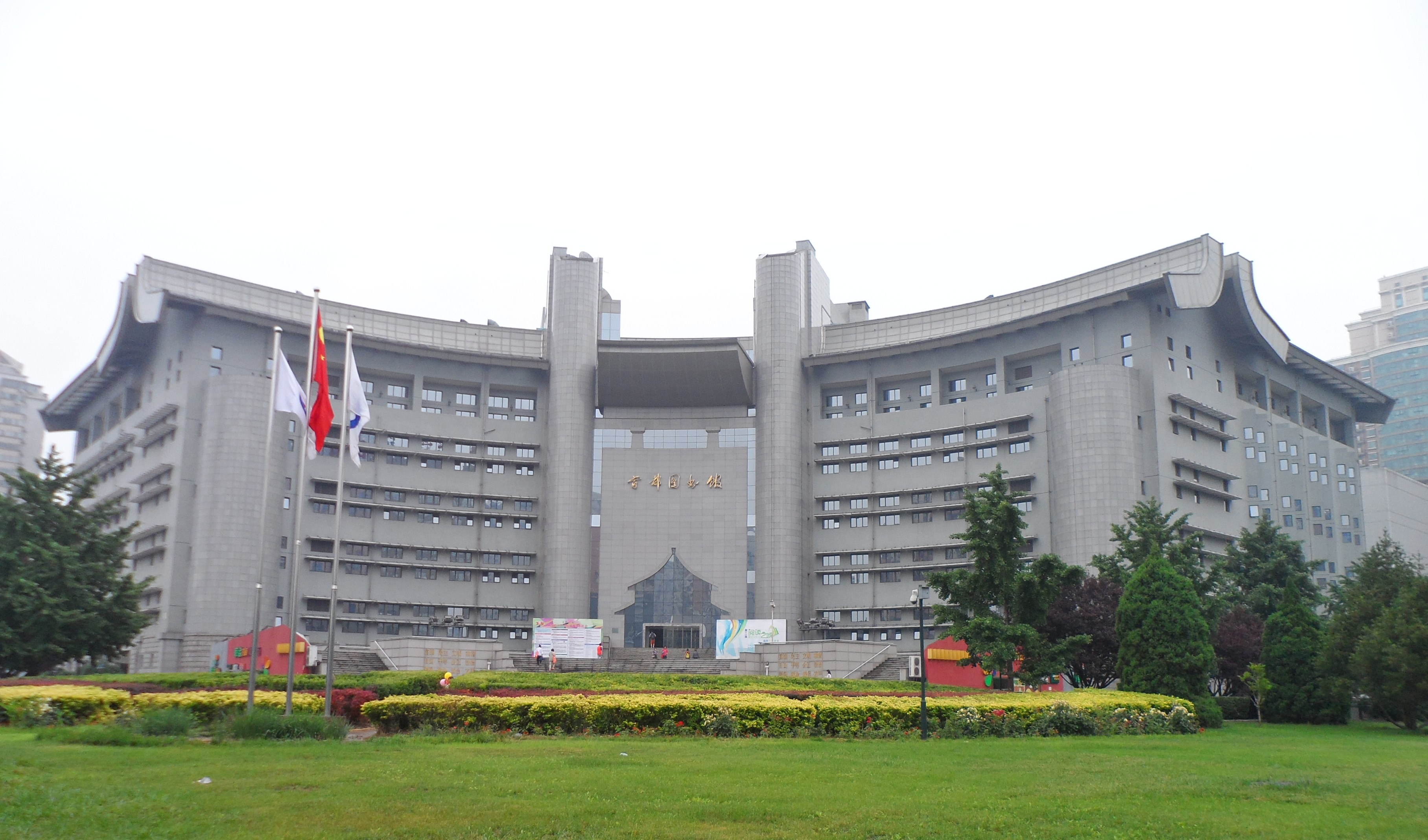 Capital Library of China